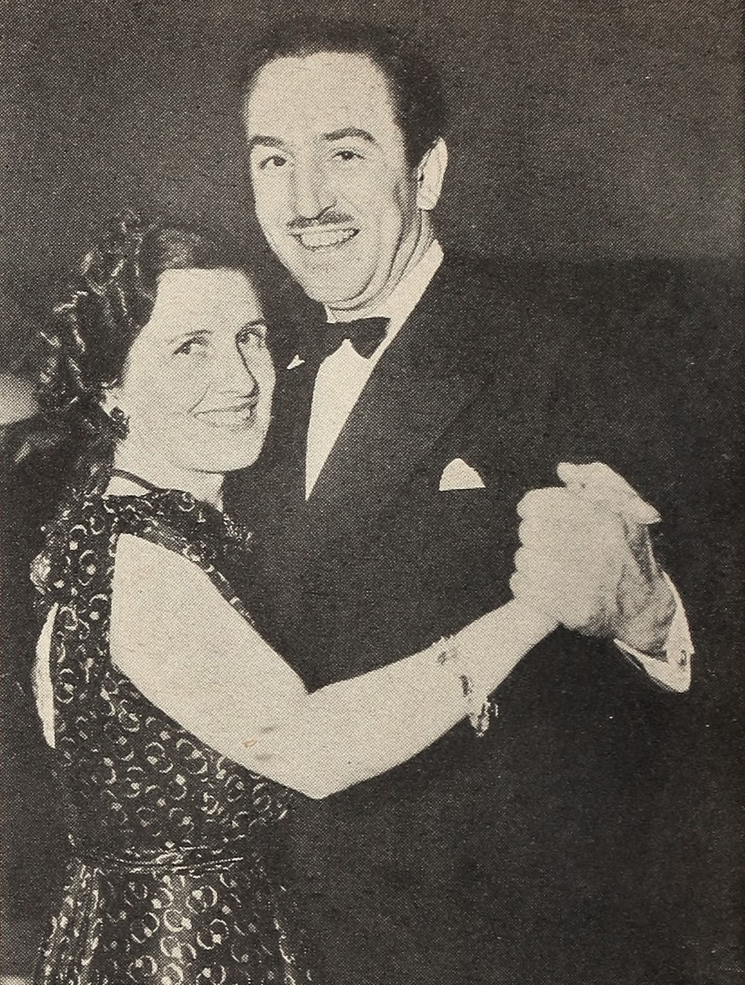 Lillian Disney and Walt Disney dancing, by Len Weissman, 1939